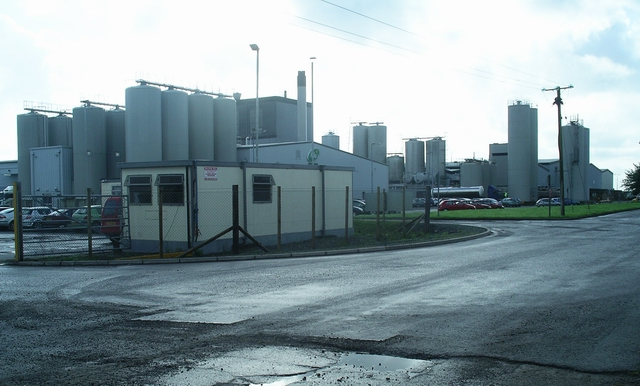 Lockerbie Creamery Award winning cheese factory situated beside the River Annan.